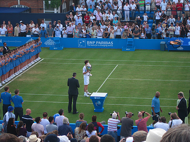 Andy Murray the 2009 Queen's Champion